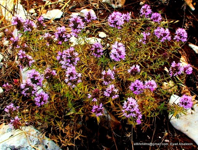 نباتات برّية سورية تؤكل